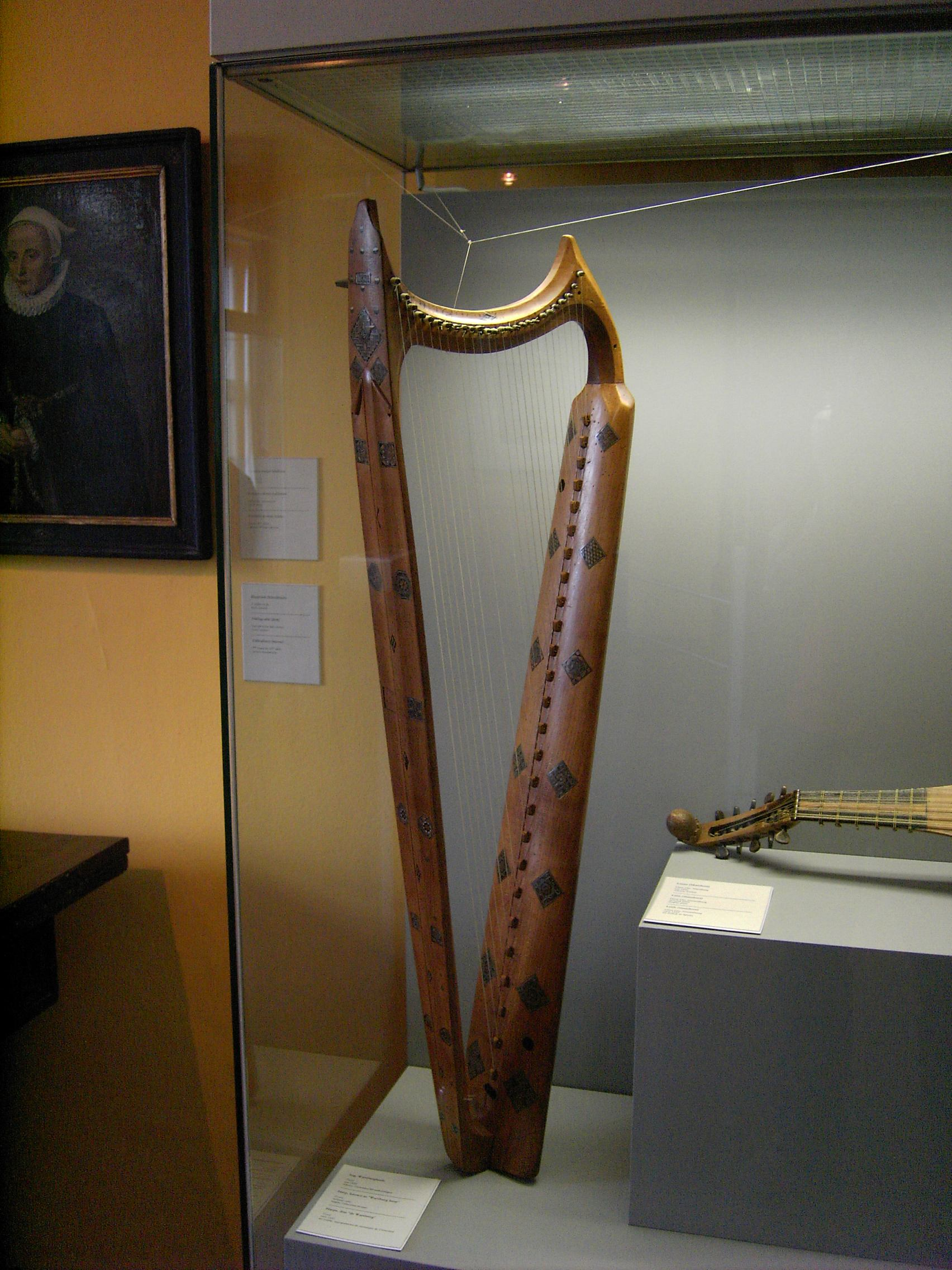 Wartburg, Musical instrument "Wartburg harp".